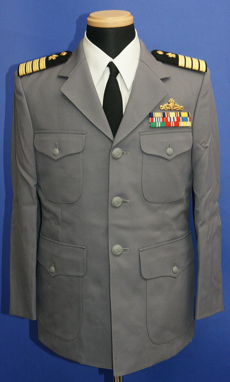 Summer service dress for captains of the Japan Maritime Self-Defense Force (JMSDF)